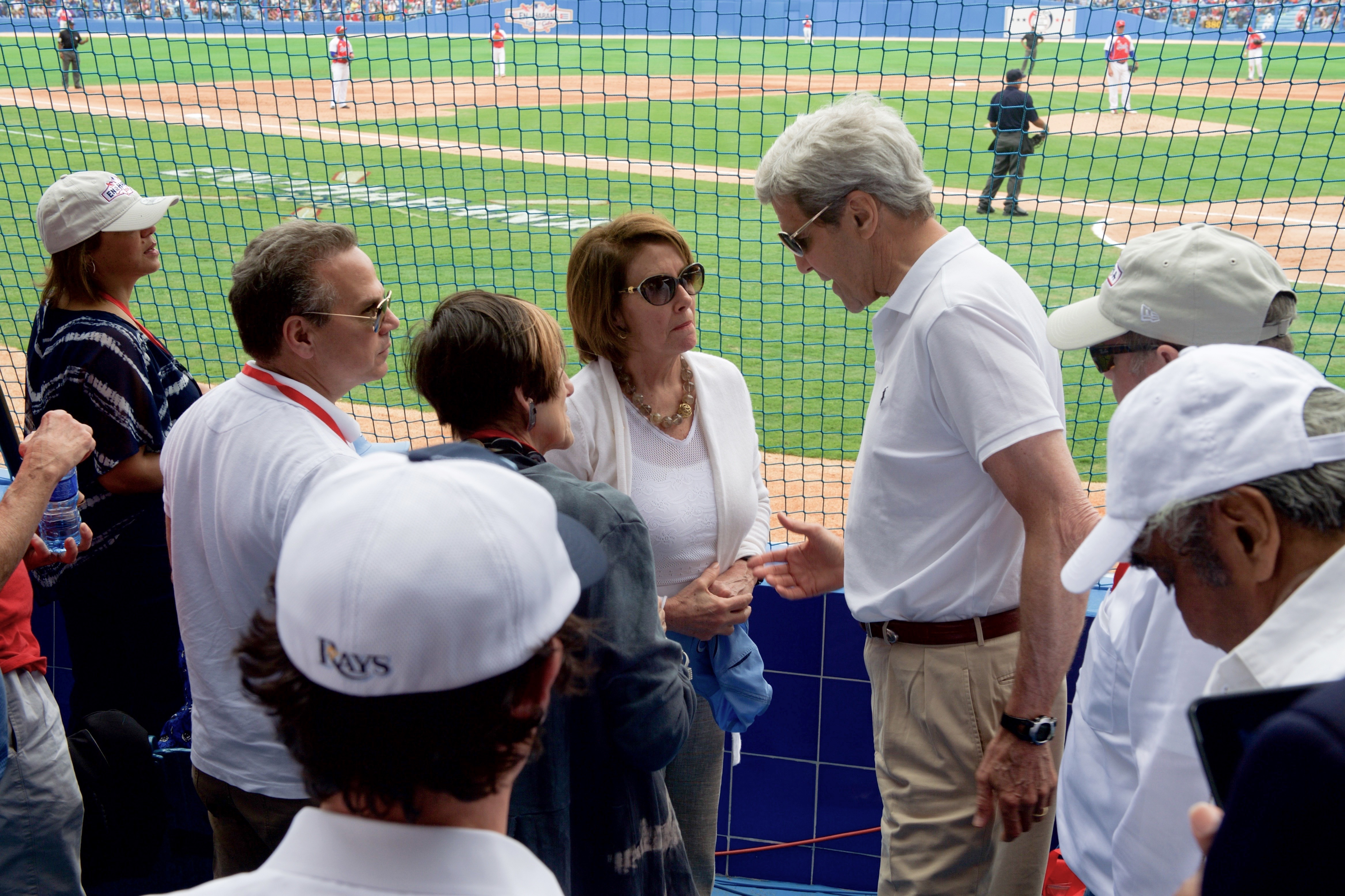 U.S. Secretary of State John Kerry speaks with House Minority Leader Nancy Pelosi of California at the Estadio Latinoamericano in Havana, Cuba, as they and other members of a U.S. delegation led by President Obama attend an exhibition game on March 22, 2016, between the Cuban National Baseball Team and the Tampa Bay Rays. [State Department photo/ Public Domain]